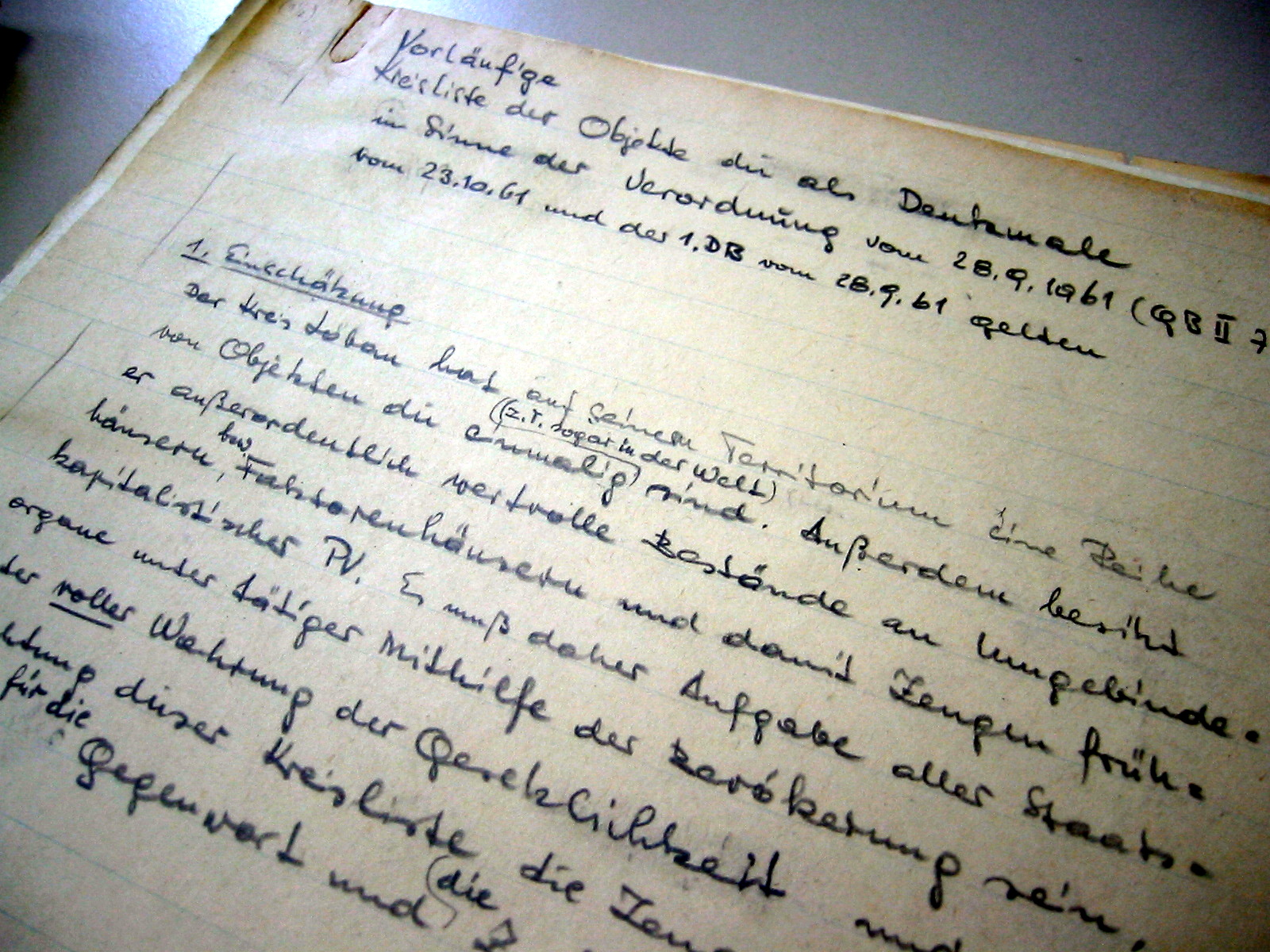 An information from Karl Bernert, that some of the buildings are very special, also world wide.